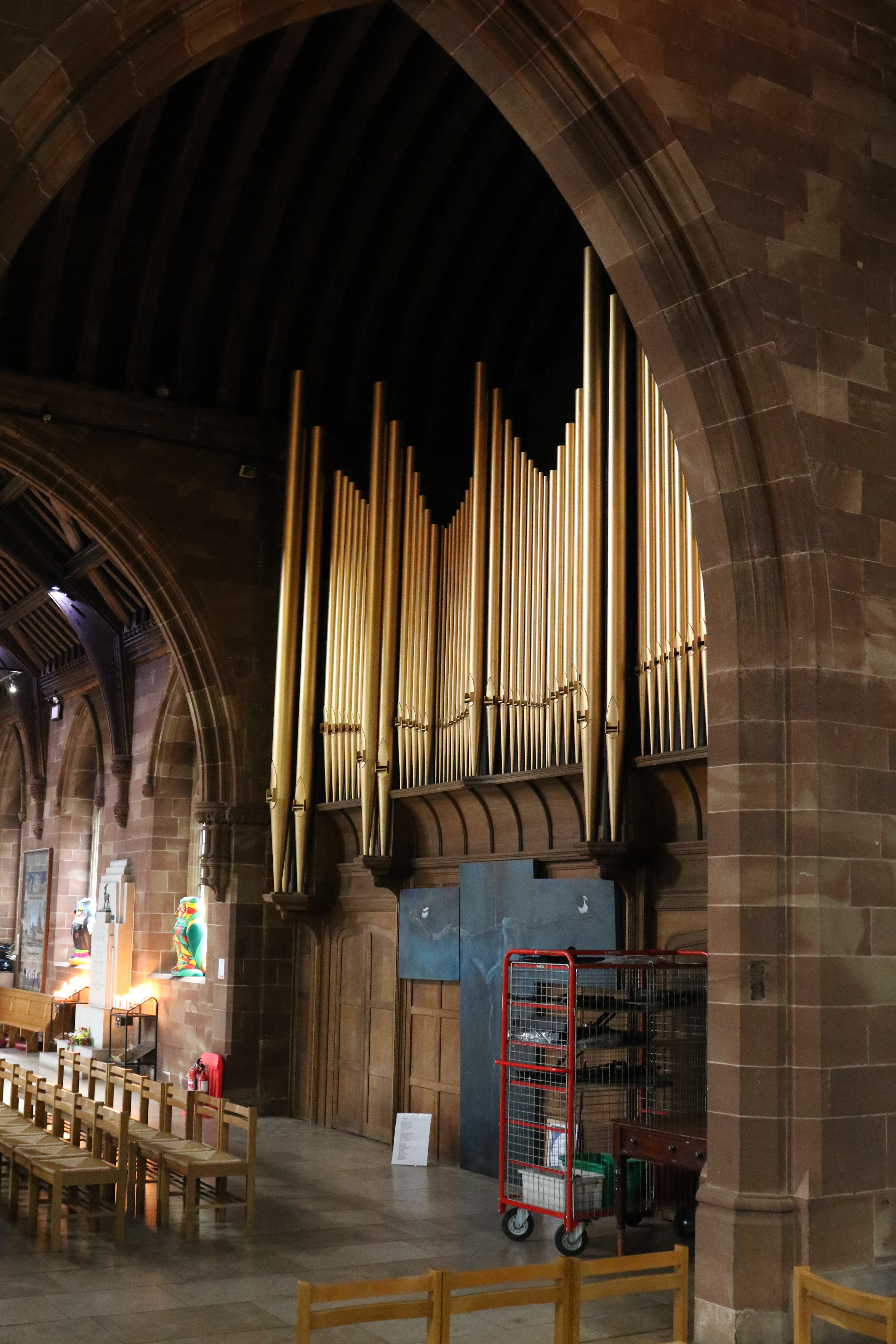 Organ case by George Pace 1954